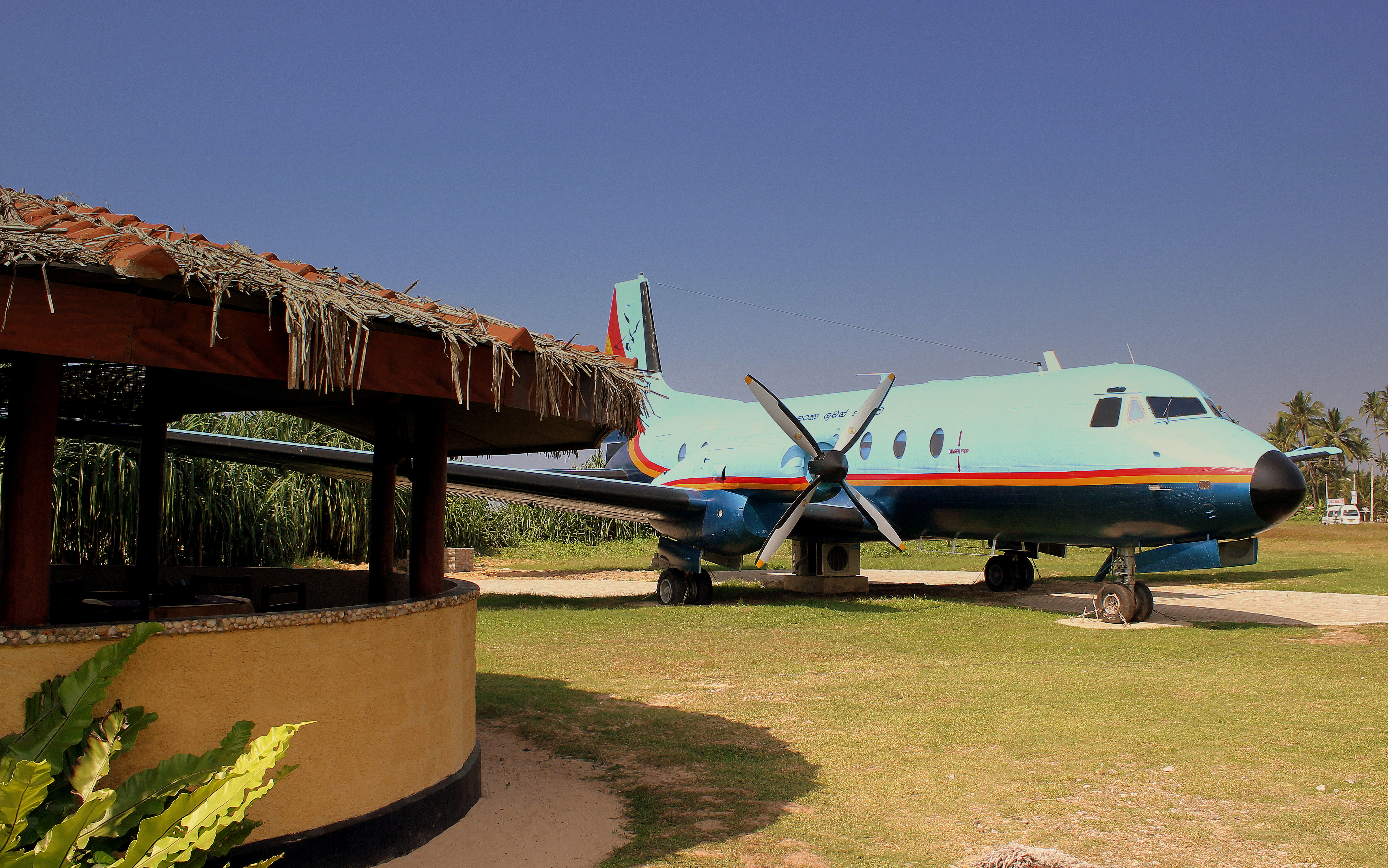 RUN BY THE SRI LANKA AIR FORCE,BUT ANYONE CAN EAT AT THE CATALINA GRILL